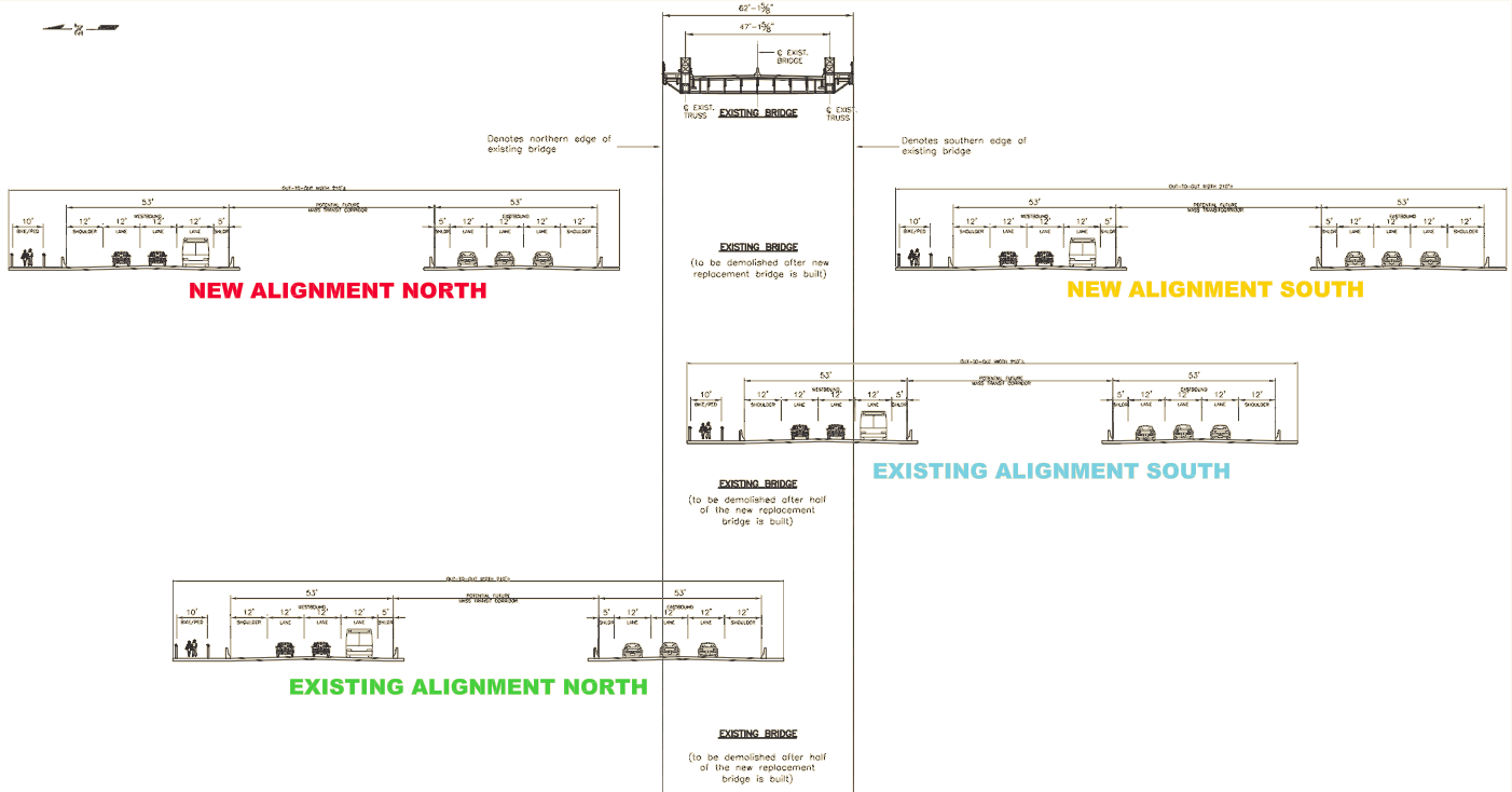 Diagram showing the 4 alternatives for the replacement of the Goethals Bridge